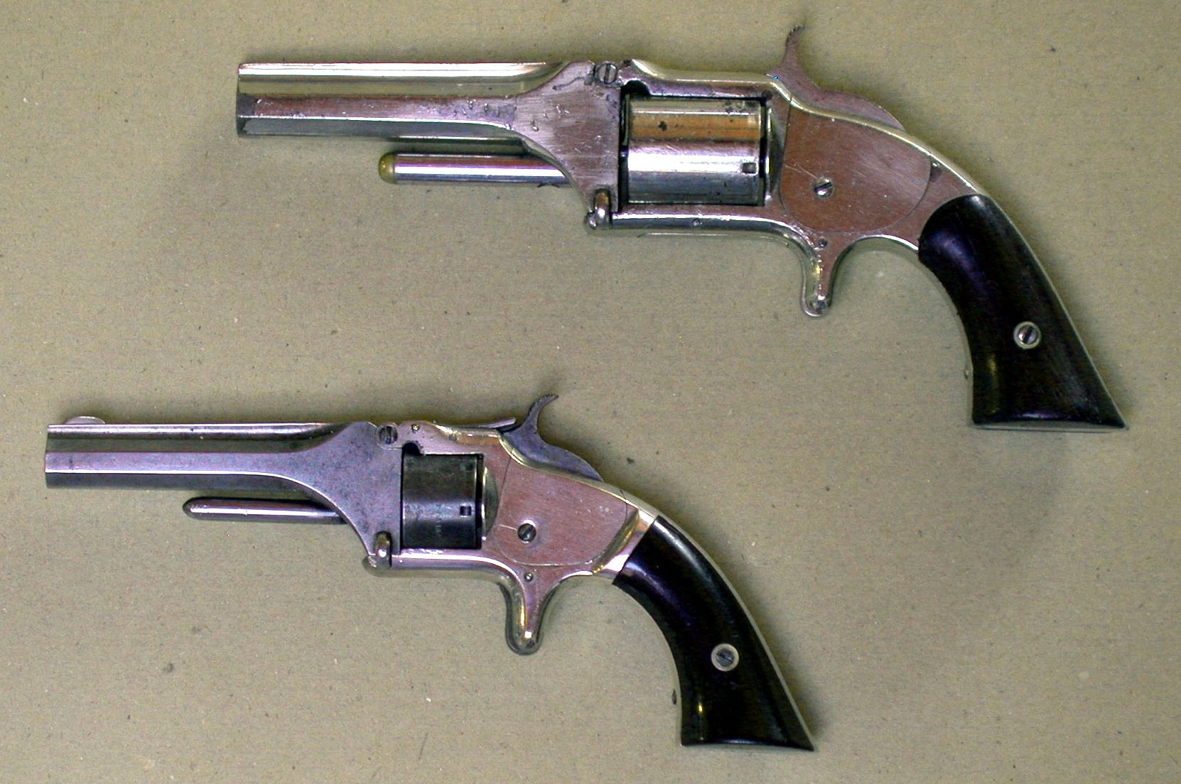 Smith & Wesson Tip Up Revolvers